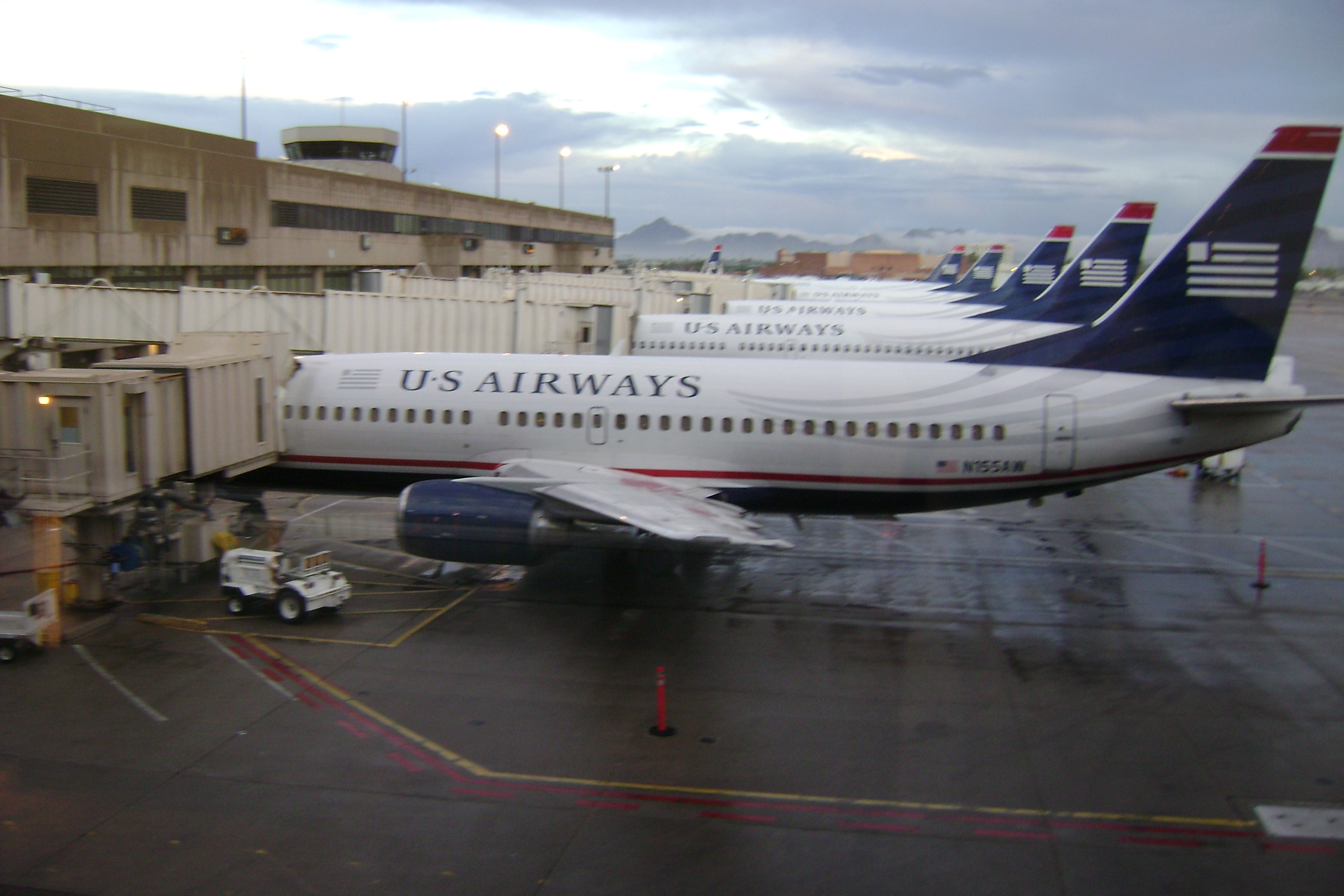 Planes from the US Airways fleet at operating hub Phoenix Sky-Harbor International Airport